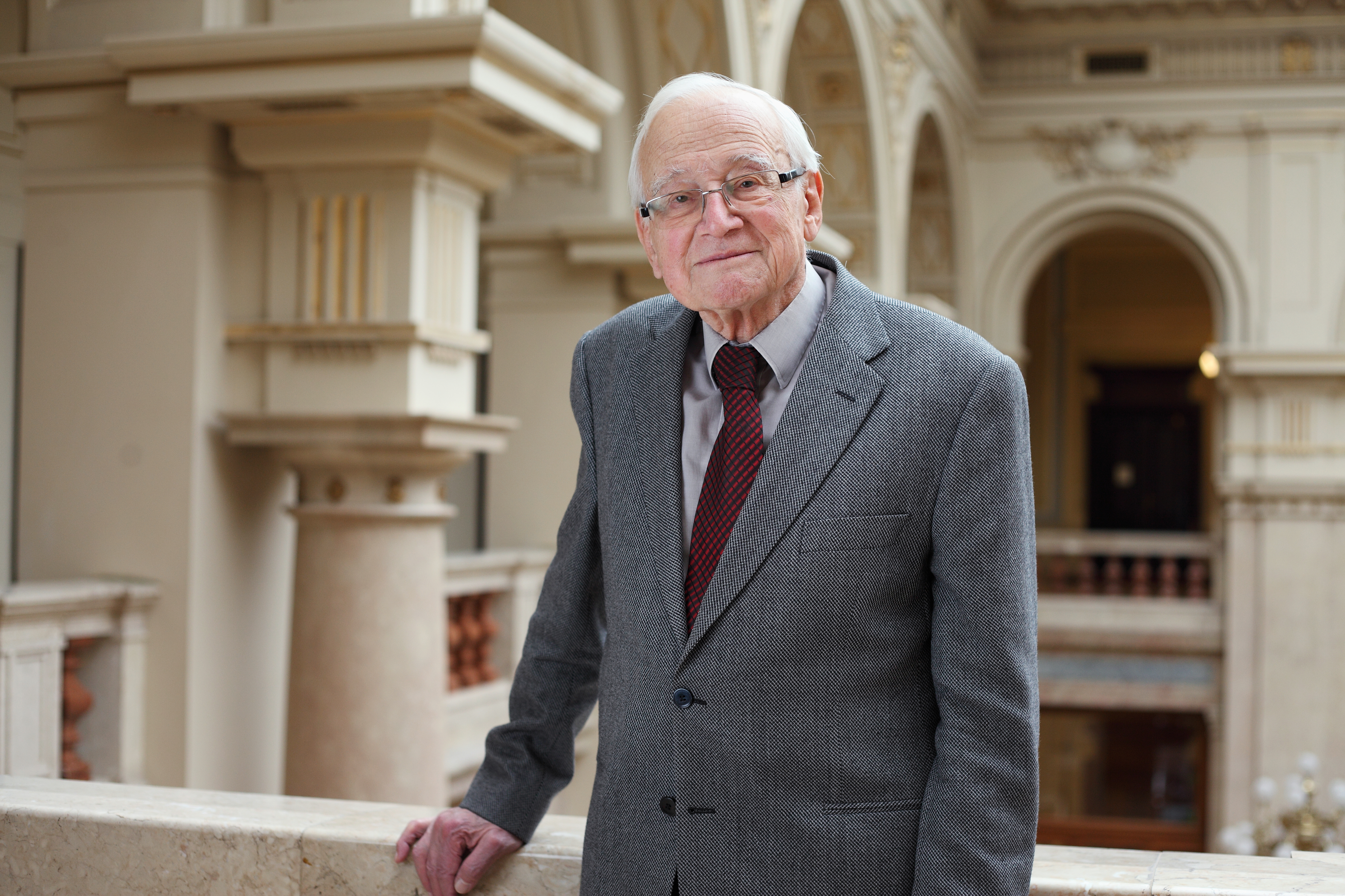 Rudolf Zahradník (2016) Rudolf Zahradník (born October 20, 1928 in Bratislava, then Czechoslovakia, now Slovakia) is a Czech chemist and former president of the Czech Academy of Science.